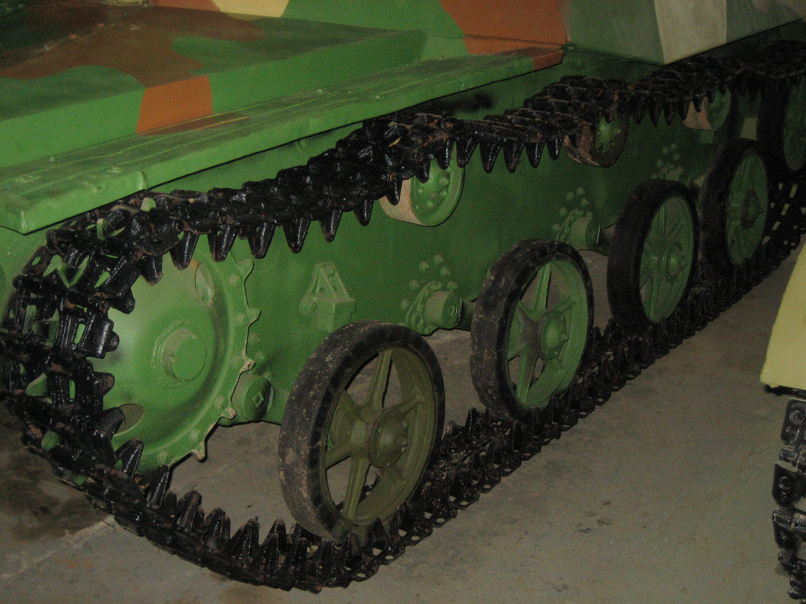 Soviet light infantry tank T-30, displayed in Kubinka Tank Museum. Photo taken on September 9, 2007. Source: Photo by me, User:Saiga20K.